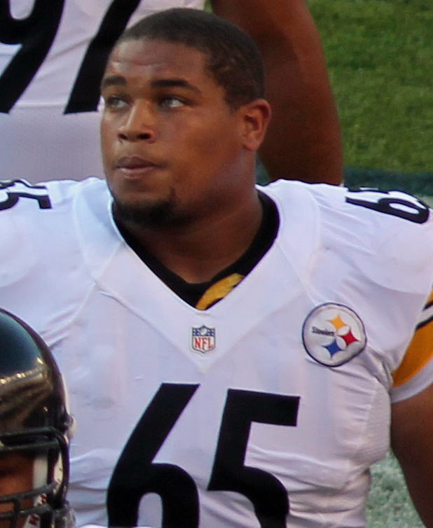 Al Woods, a National Football League Player.